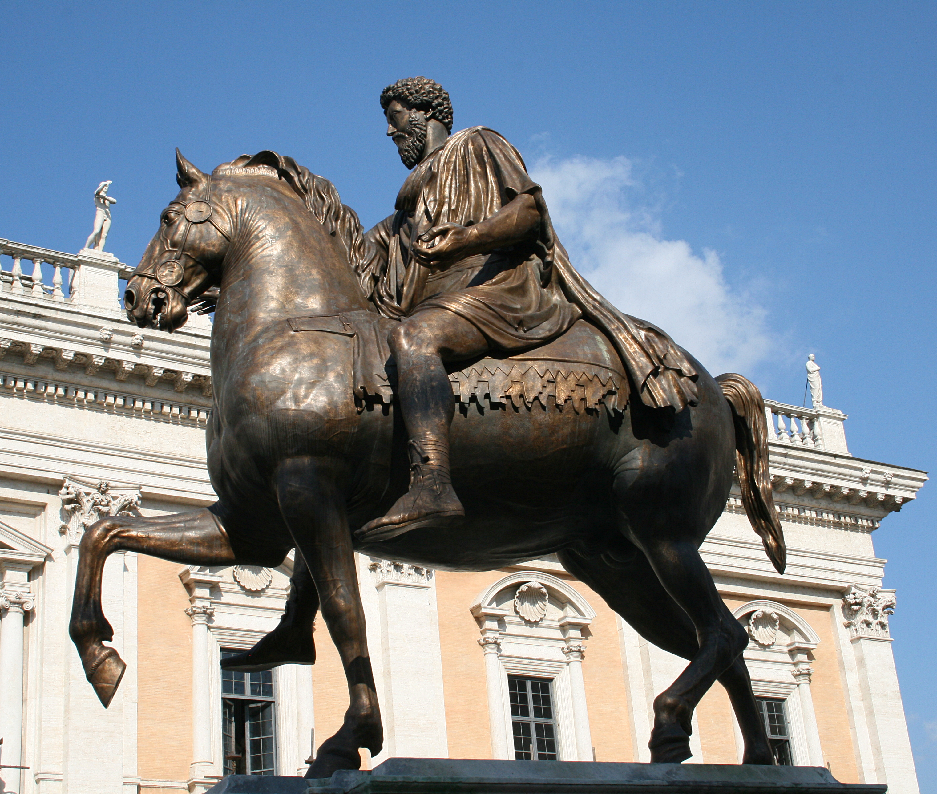 Bronze statue of Marcus Aurelius, piazza del Campidoglio in Rome. Modern copy of a Roman original of the 2nd century CE, now kept in the Palazzo Nuovo, Musei Capitolini.